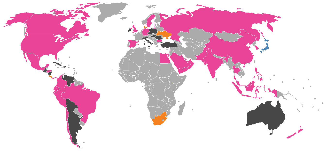 Dunkin Donuts world map (UTC)